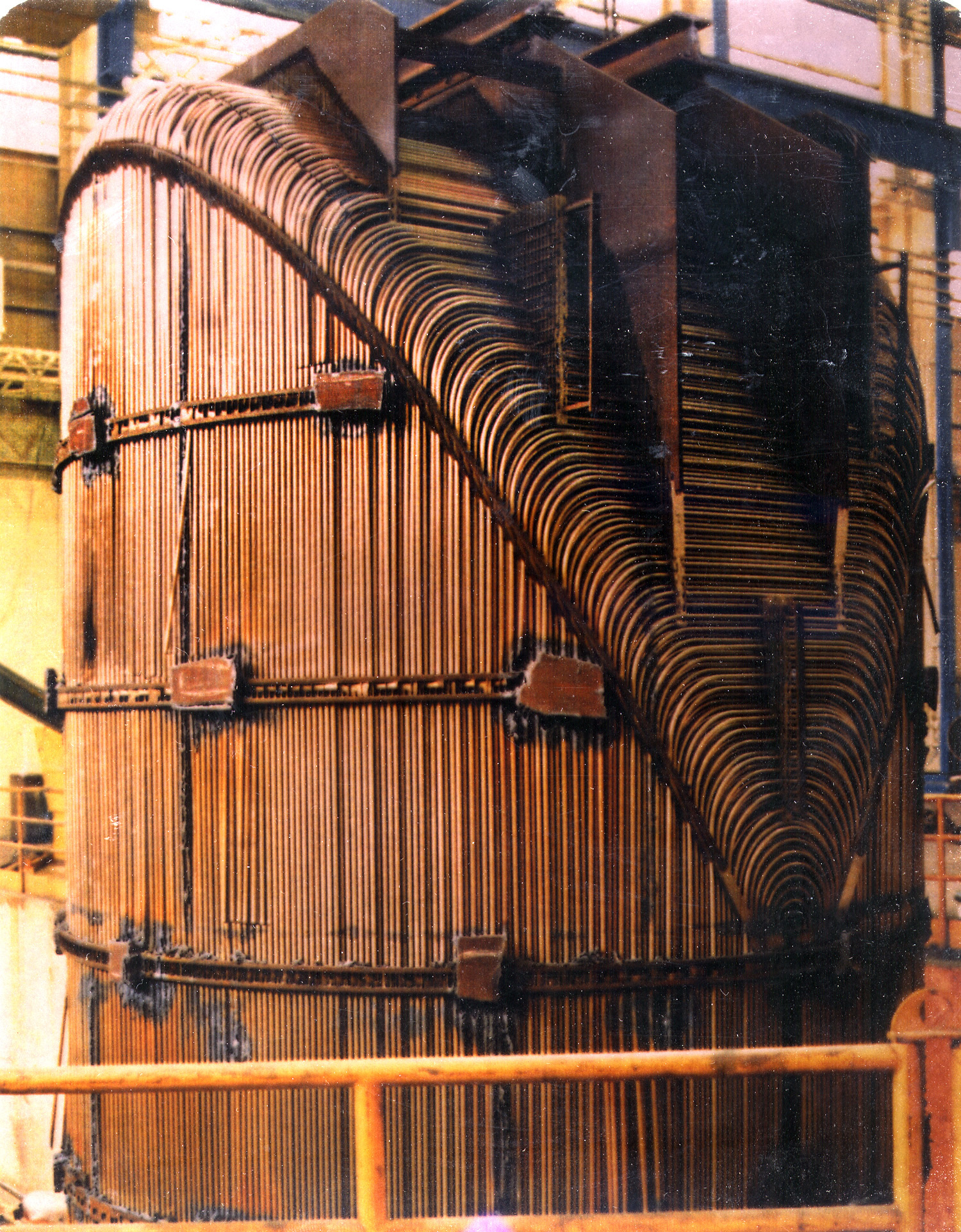 The U-bend and upper support structures of the tube bundle of a Combustion Engineering vertical (recirculating) steam generator.